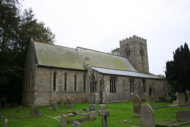 All Saints' church, South Leverton A view from the north east showing the restored chancel by Ewan Christian in 1868 in an Early English style